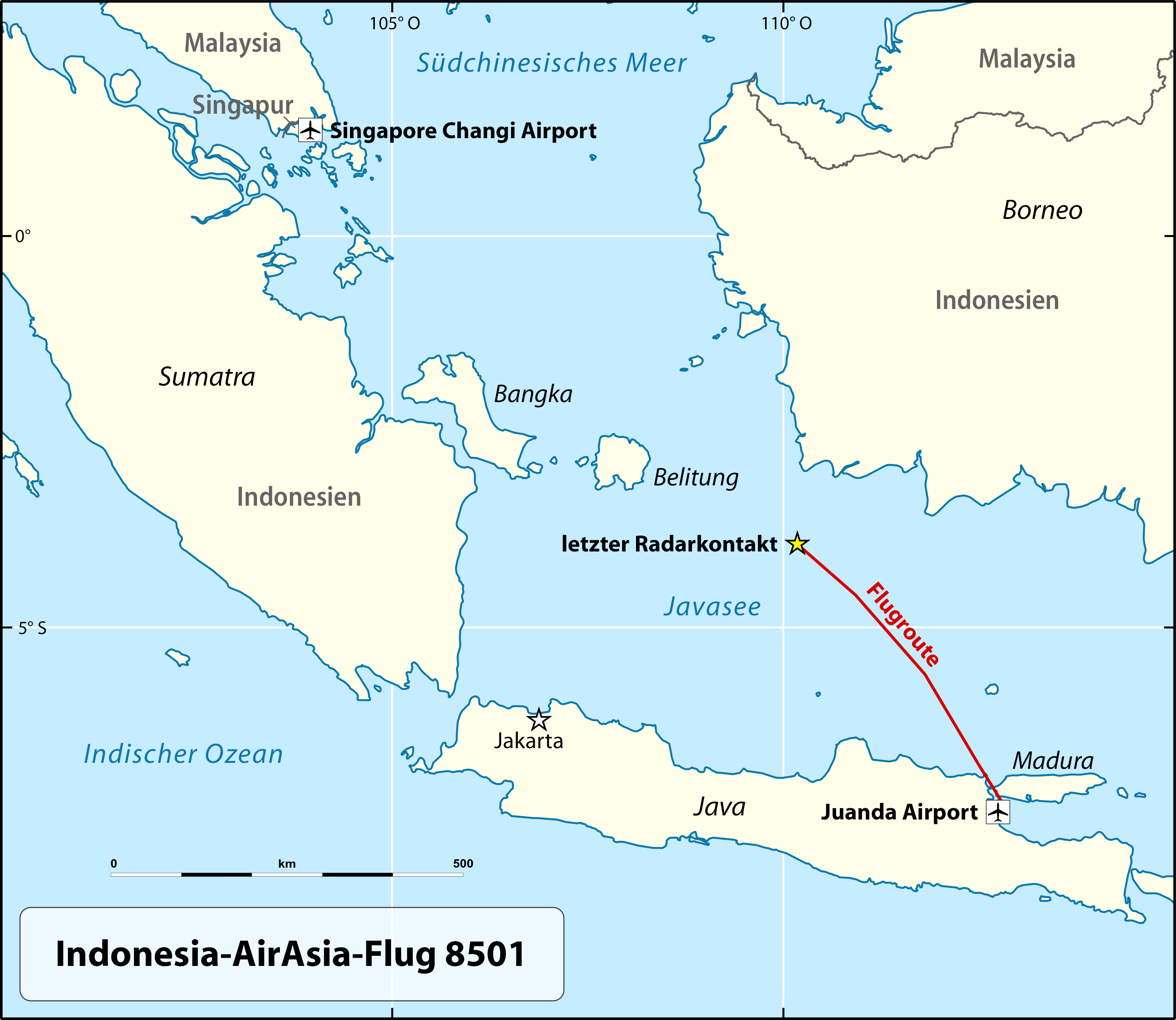 Flight path of Indonesia AirAsia Flight 8501.